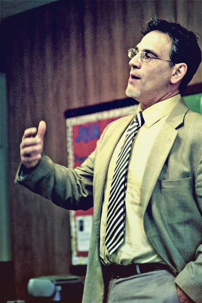 A photograph of Jerry White addressing a meeting in 2008